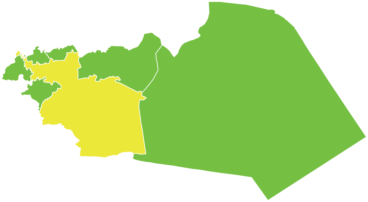 Homs District, Syrian governorate of Homs Governorate.